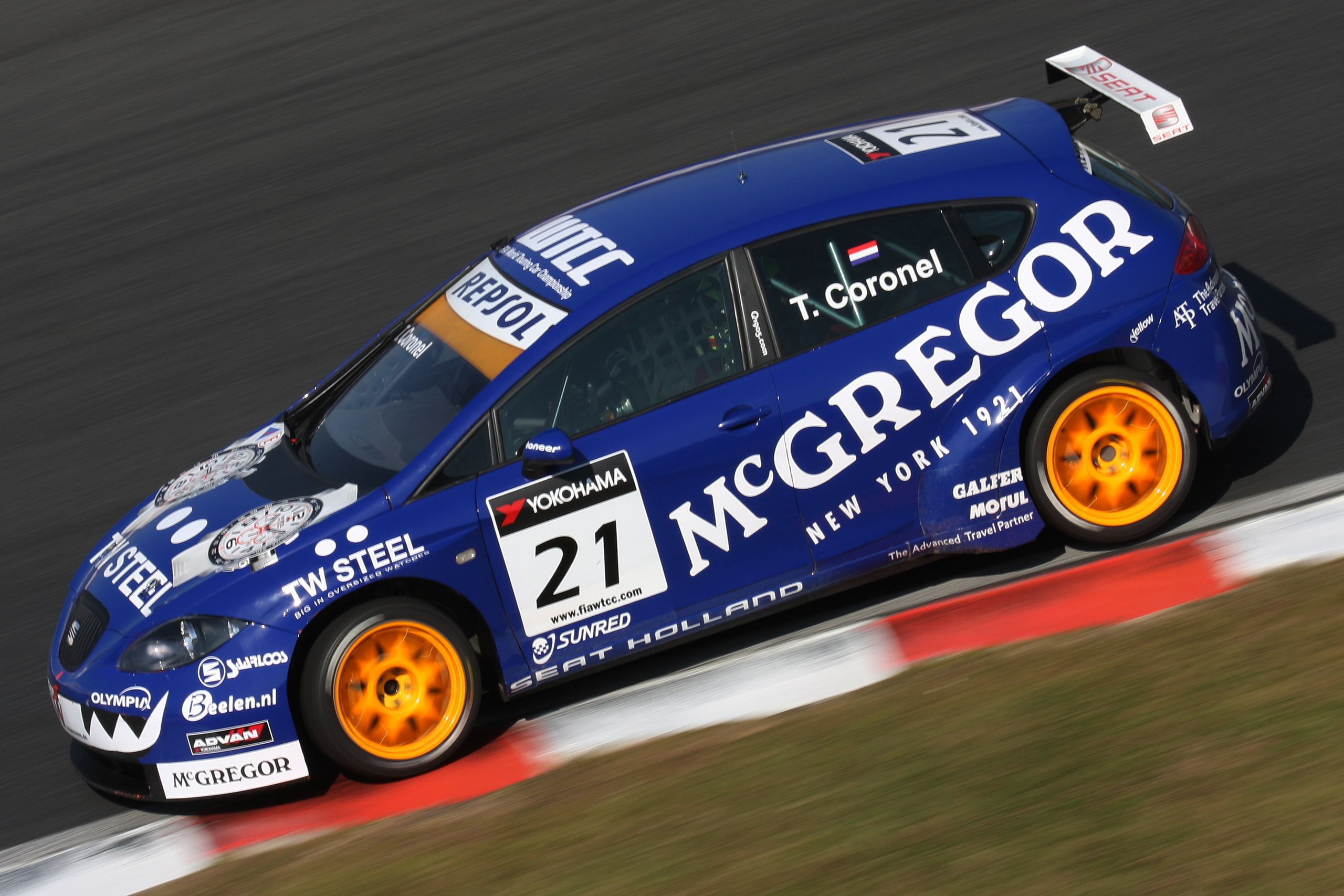 World Touring Car Championship 2009 Race of Japan: Tom Coronel (SUNRED Engineering)